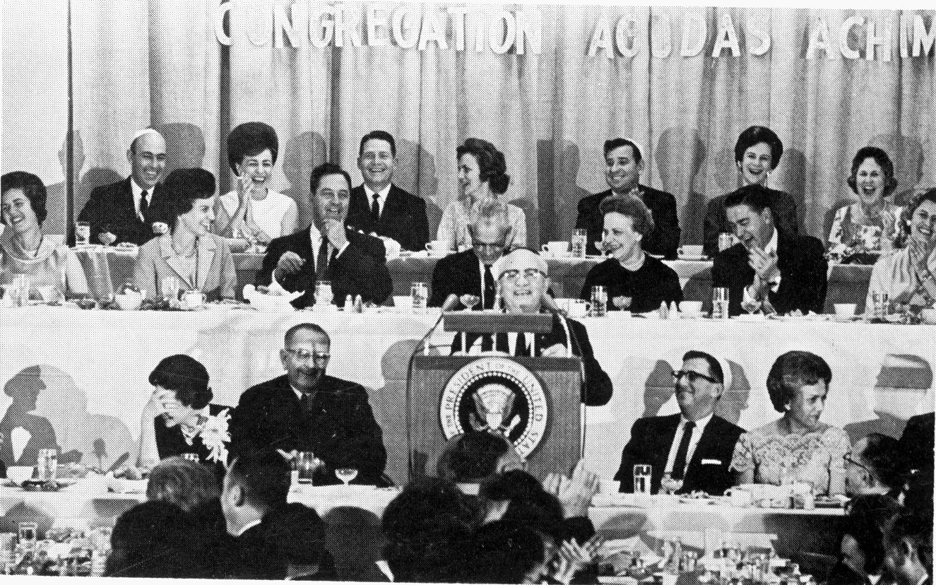 Jim Novy presenting President Lyndon Johnson at the Congregation Agudas Achim building dedication, December 30, 1963. LBJ, along with Lady Bird are left of Jim Novy at the podium.